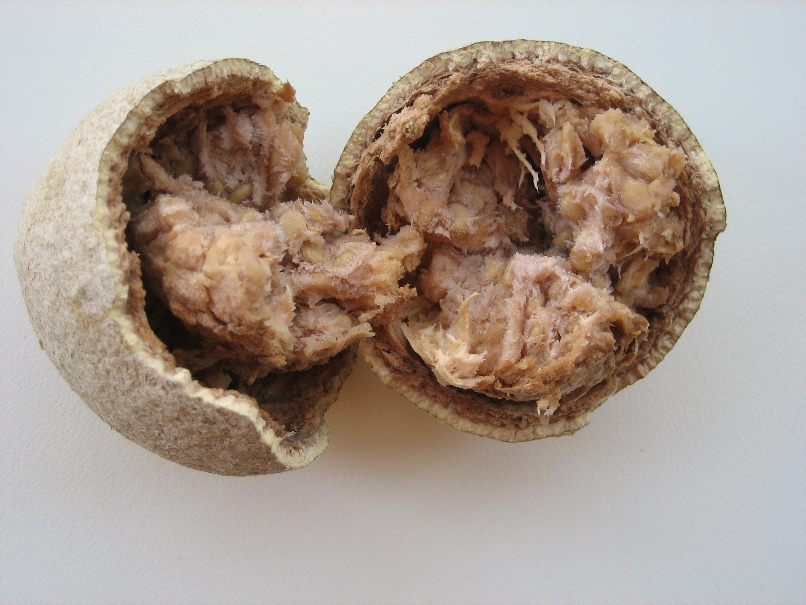 Picture of Wood-apple purchased from market in Pune, India - Dec 2007